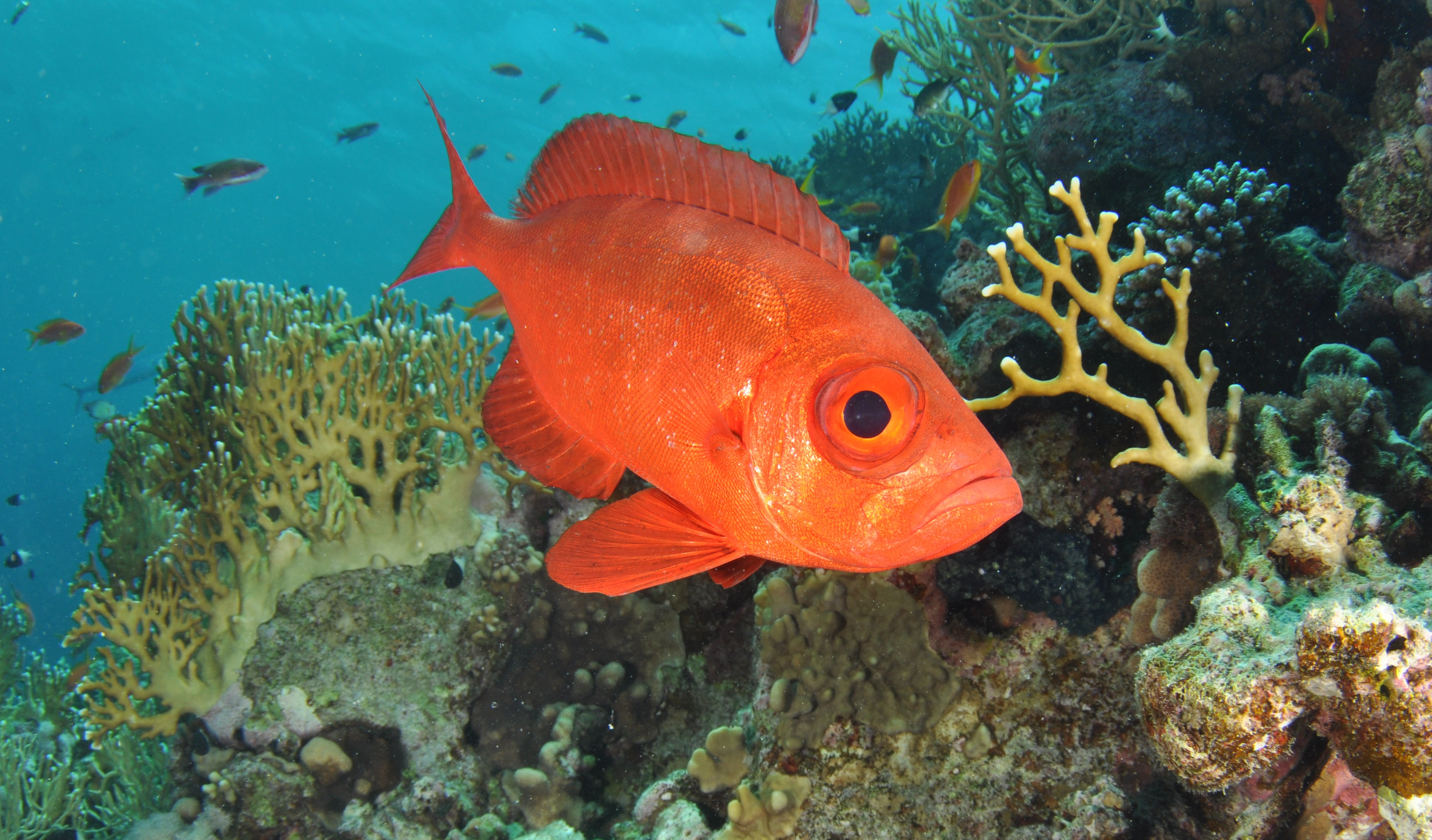 Big eye from the Red Sea